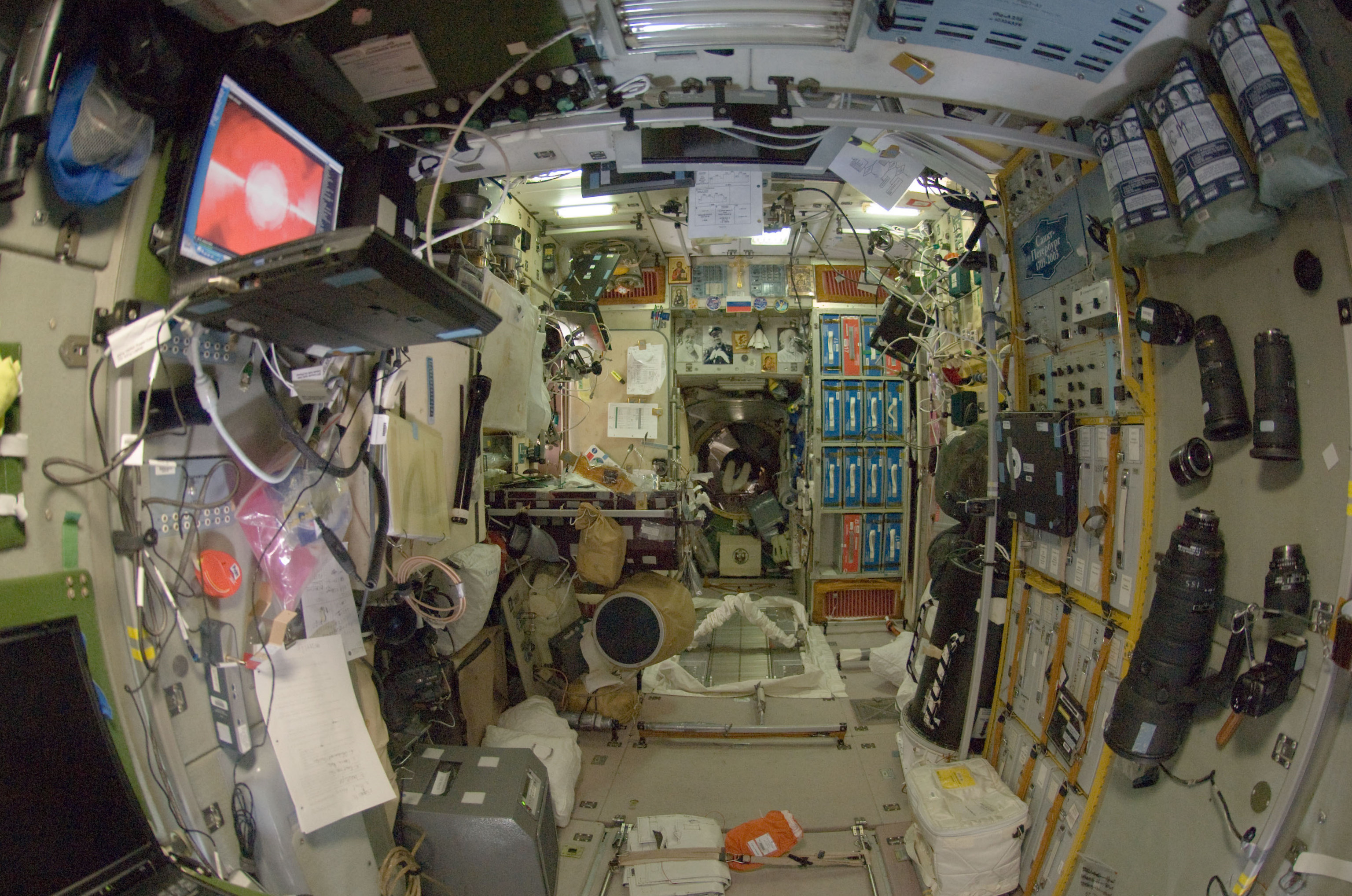 An overall interior view of the Zvezda Service Module photographed by an Expedition 17 crewmember on the International Space Station.